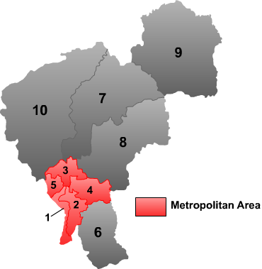 Map of Changchun city in Jilin province